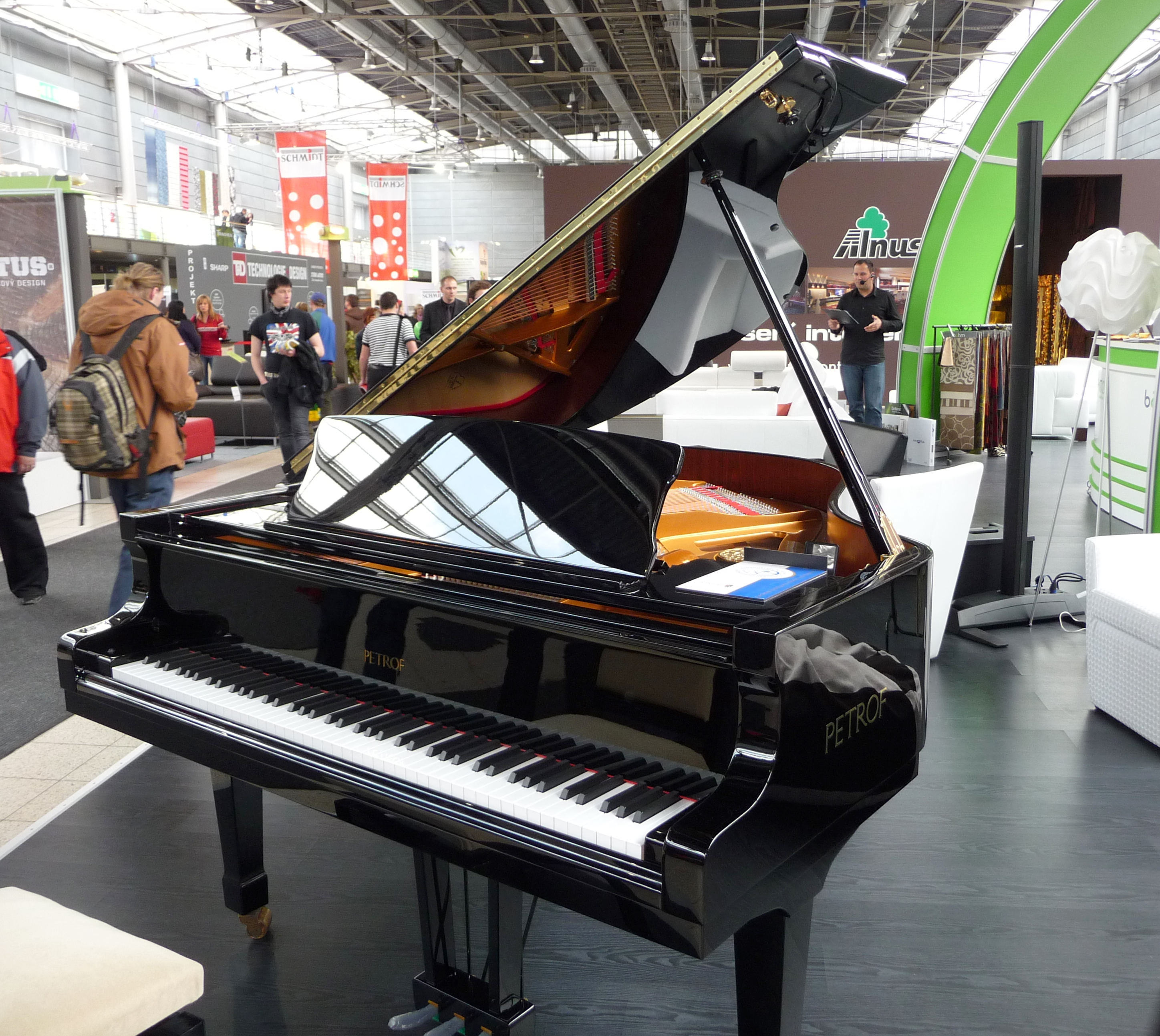 Piano Petrof in exposition of Exit 112, Building Fairs Brno 2011 -10 -5 -3 -2 ◄ ► +2 +3 +5 +10